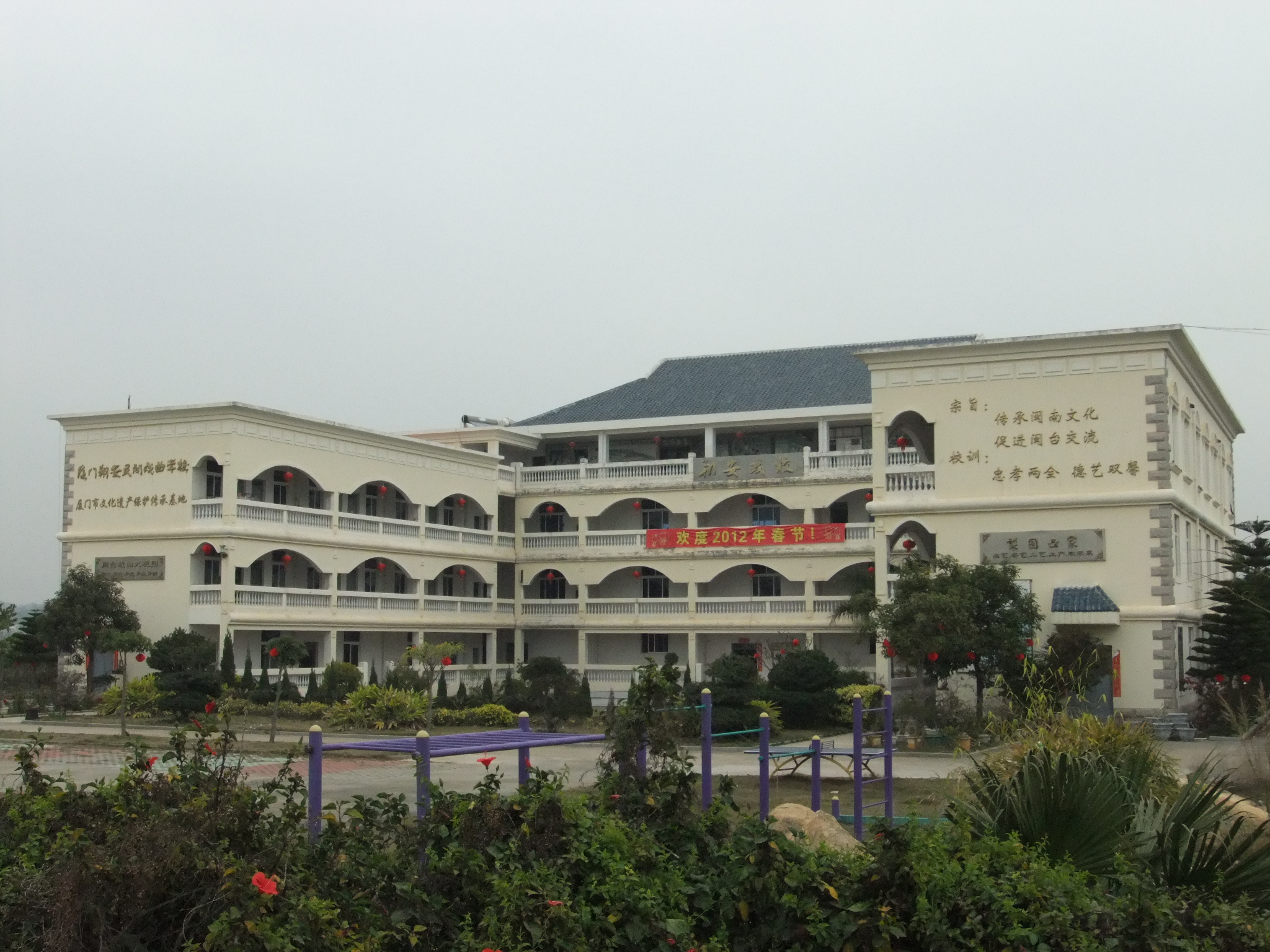 A building off Hwy X444 in Xiang'an District, somewhere near Lütang Village (吕塘村) of Xindian Town. It is apparently a schoolhouse.